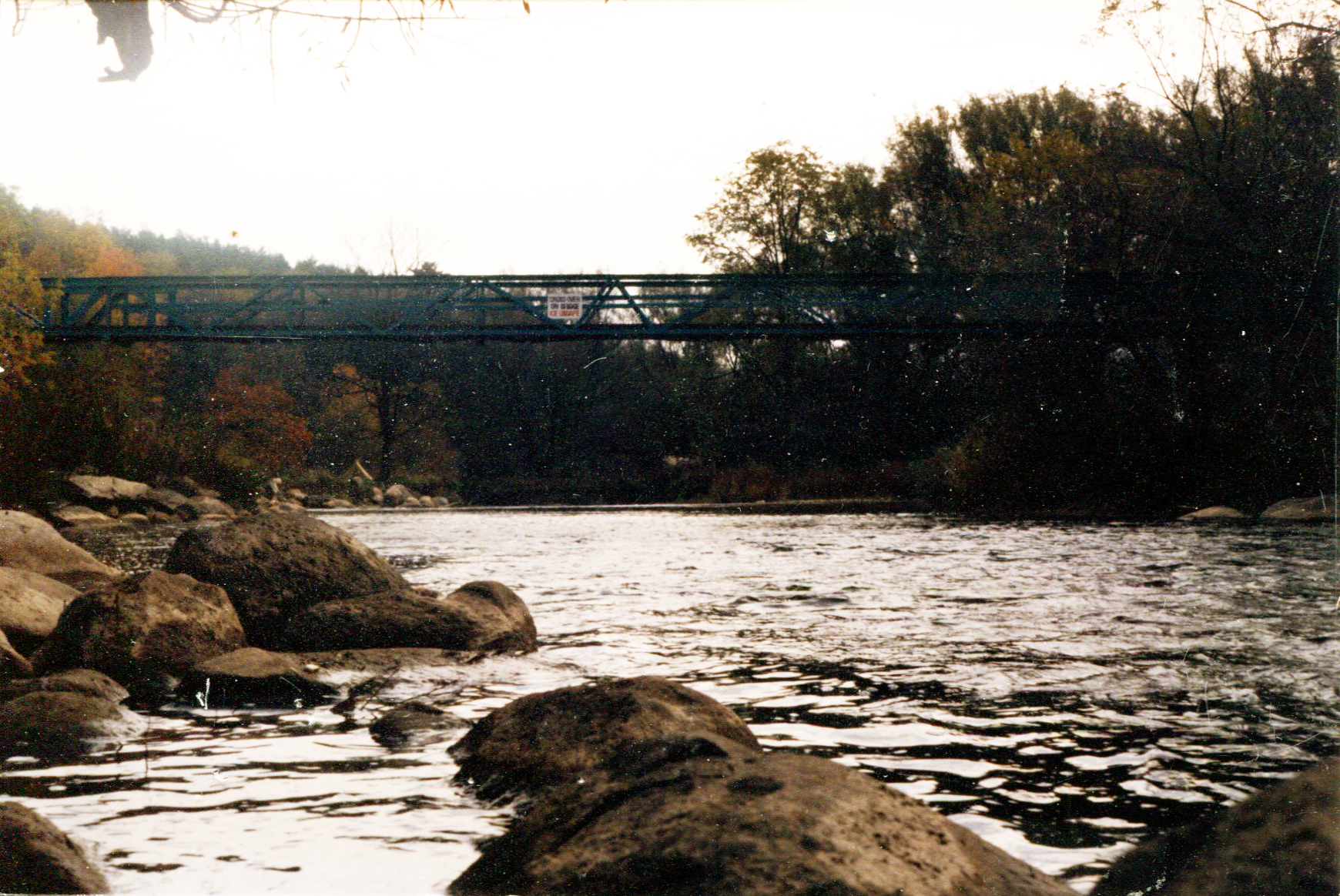 Credit River passing through the Norval property of Upper Canada College